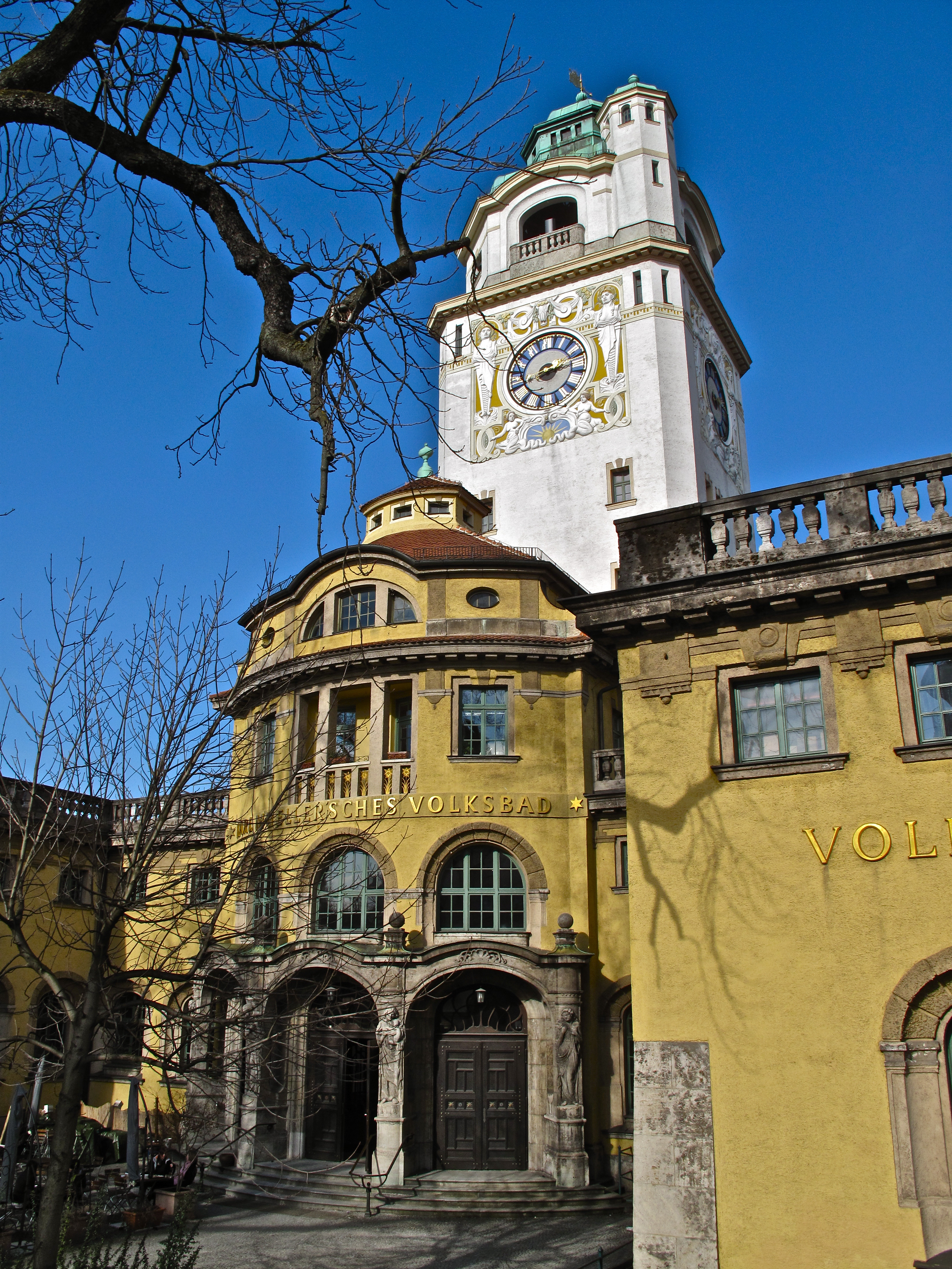 The swimming pool "Müllersches Volksbad" in Munich.